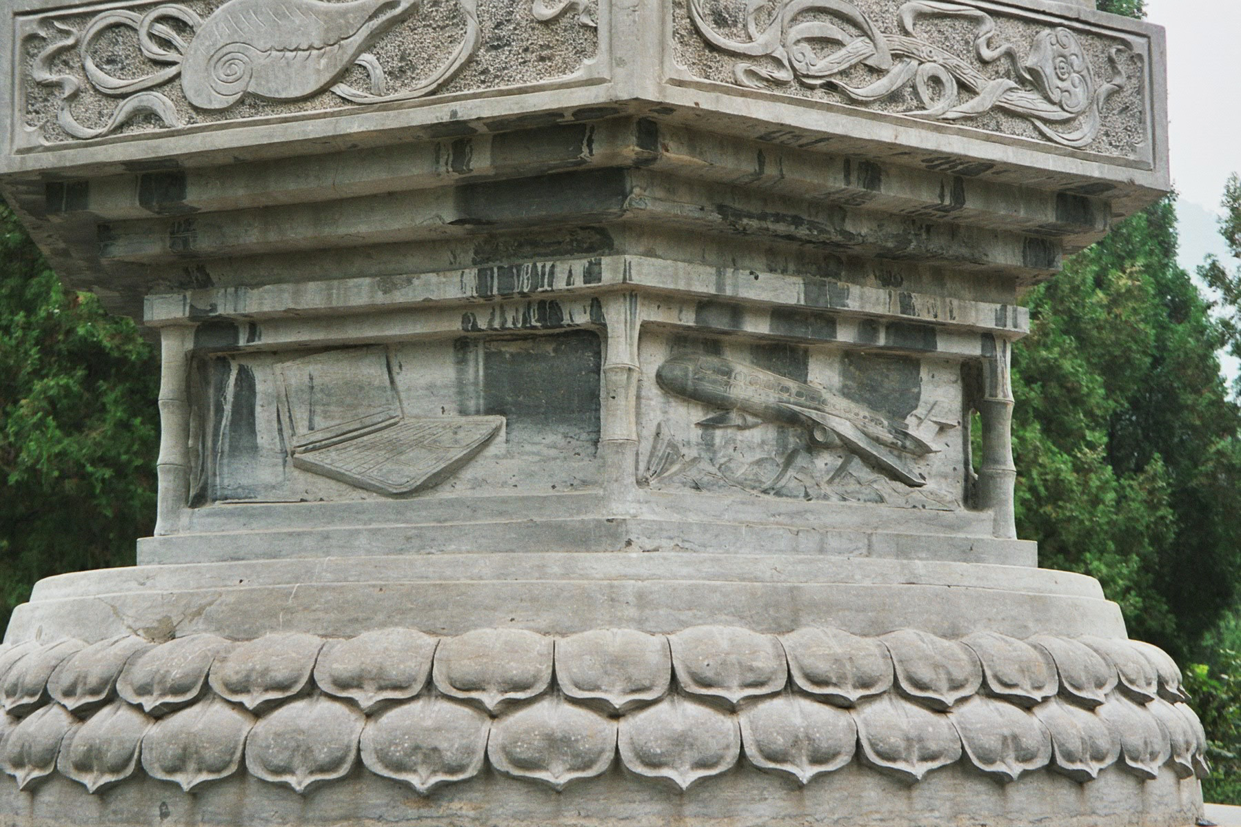 Songshan Pagoda Forest, Pagoda with Airplane and Laptop, in september 2006.